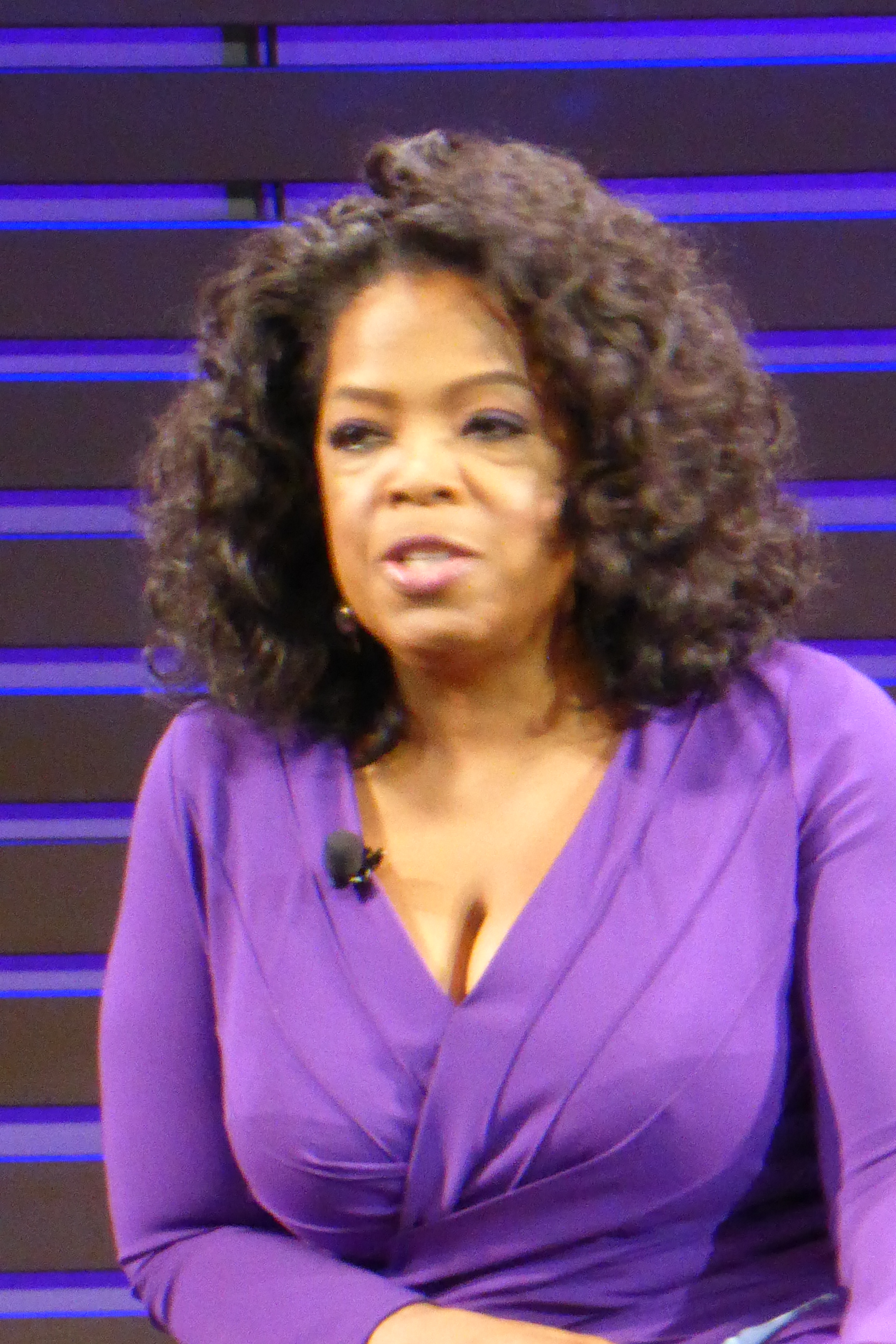 2013 Women in the World Conference